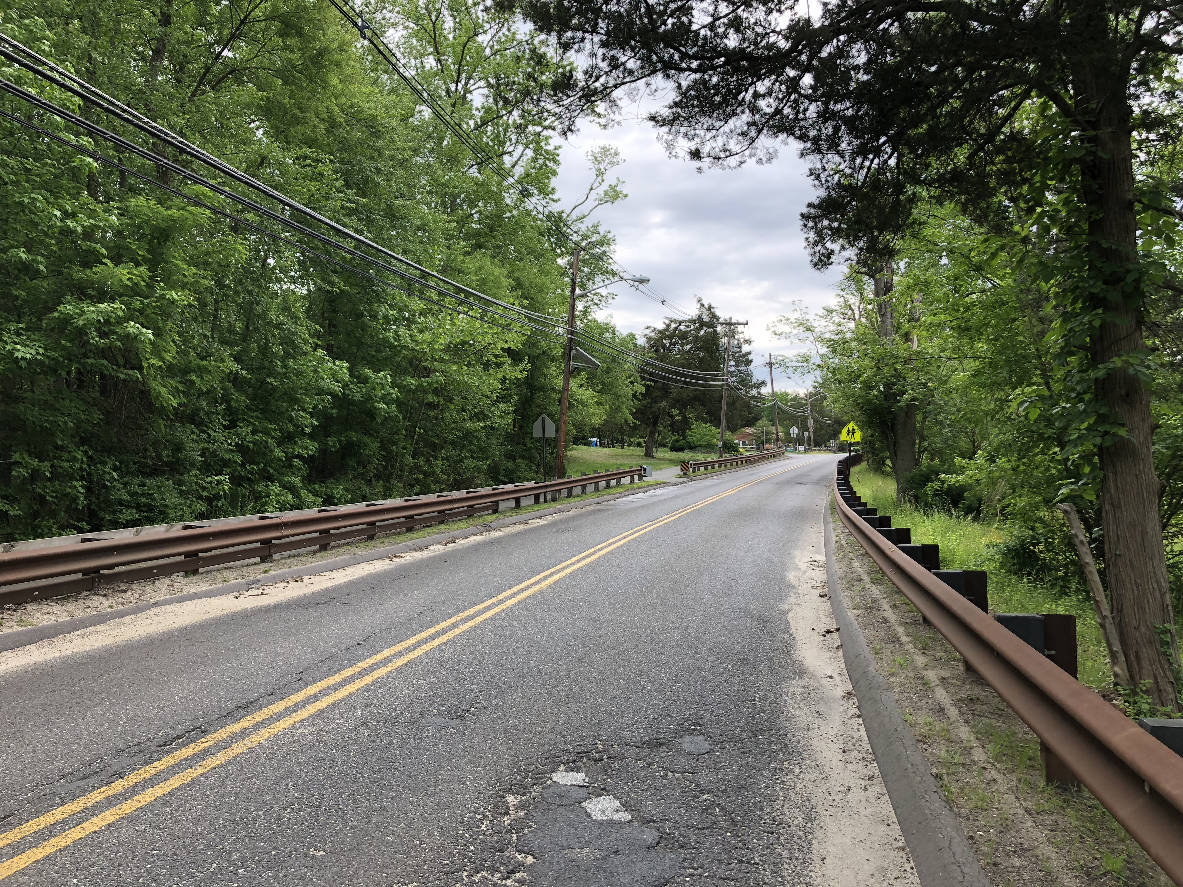 View east along Burlington County Route 532 (Tabernacle Road) between Trading Post Way and Aetna Way/Powhatan Trail in Medford Lakes, Burlington County, New Jersey